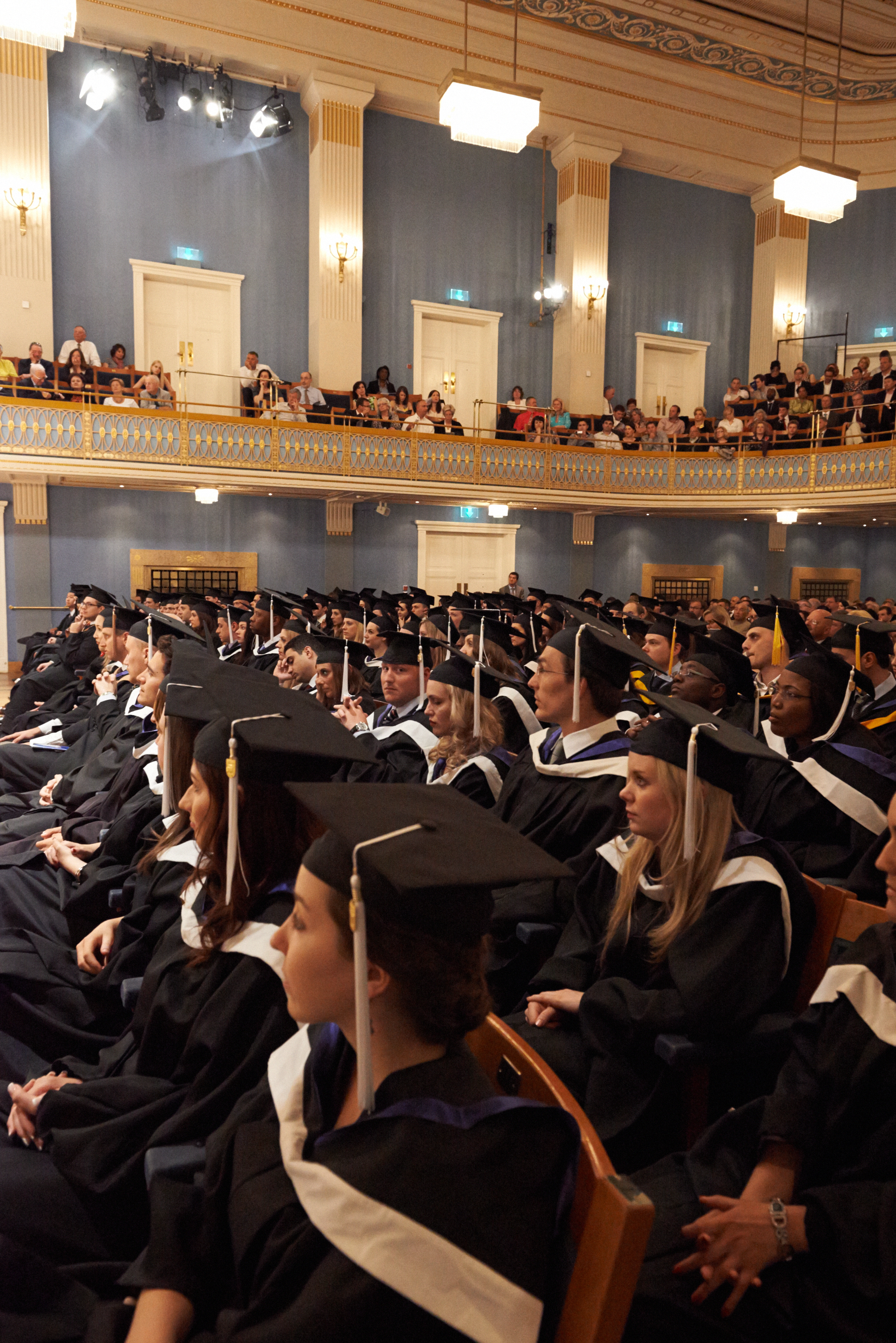 Webster Vienna Graduate Ceremony 2013